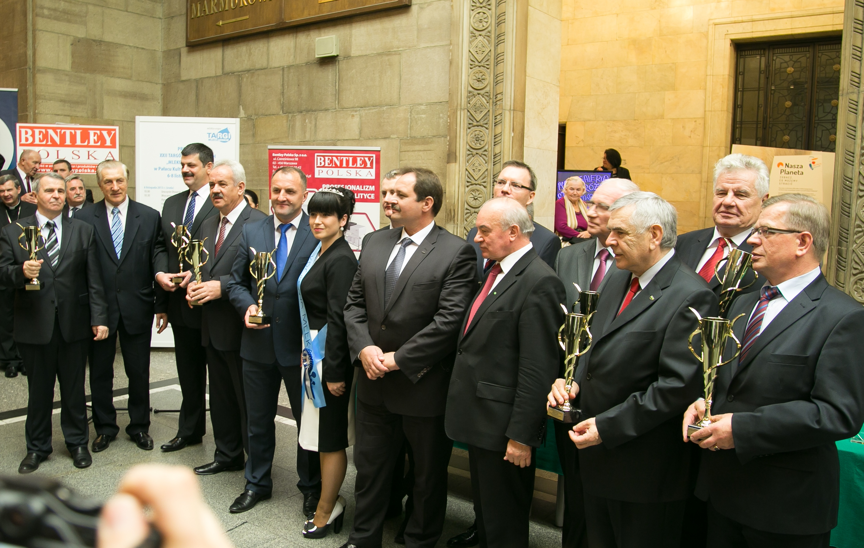 Mleko Expo 2013, Polish Milk Queen, CEOs of Dairy Producers receive awards at the opening ceremony, November 6th, 2013